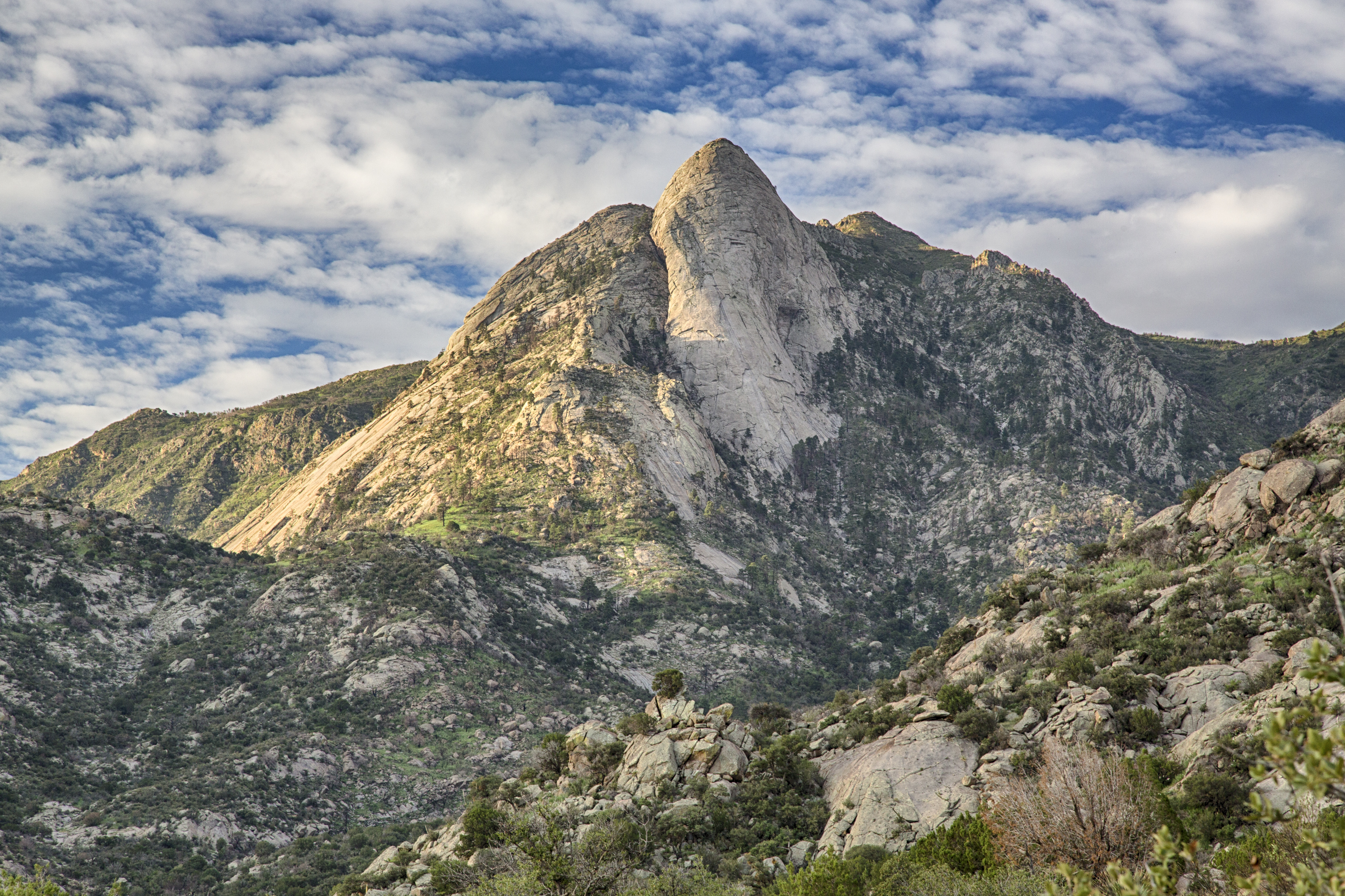 Sugarloaf Peak on the Organ Mountains conservationlands15 Social Media Takeover, March 15t Our #conservationlands15 celebration continues with dinosaur finds on the BLM’s National Conservation Lands. Check out the Prehistoric Trackways National Monument just outside of Las Cruces, New Mexico, as a preview of cool things to come. The Monument includes a major deposit of Paleozoic Era fossilized footprint mega-trackways from a time that predates even the dinosaurs. The trackways contain footprints of numerous amphibians, reptiles, and insects (including previously unknown species) as well as plants and petrified wood dating back 280 million years. These fossils collectively provide new opportunities to understand animal behaviors and environments. The site contains one of the most scientifically significant Early Permian track sites in the world. Visitors can view trackways displays at the New Mexico Museum of Natural History in Albuquerque. And any trip to the Prehistoric Trackways and Las Cruces area should include the must-see Organ Mountains-Desert Peaks National Monument, just a stone’s throw away from across the Rio Grande Valley, and one of New Mexico’s most breathtaking landscapes. The area offers hiking, camping, rock climbing and nature study right in the back yard of the community. Photos by Bob Wick, BLM